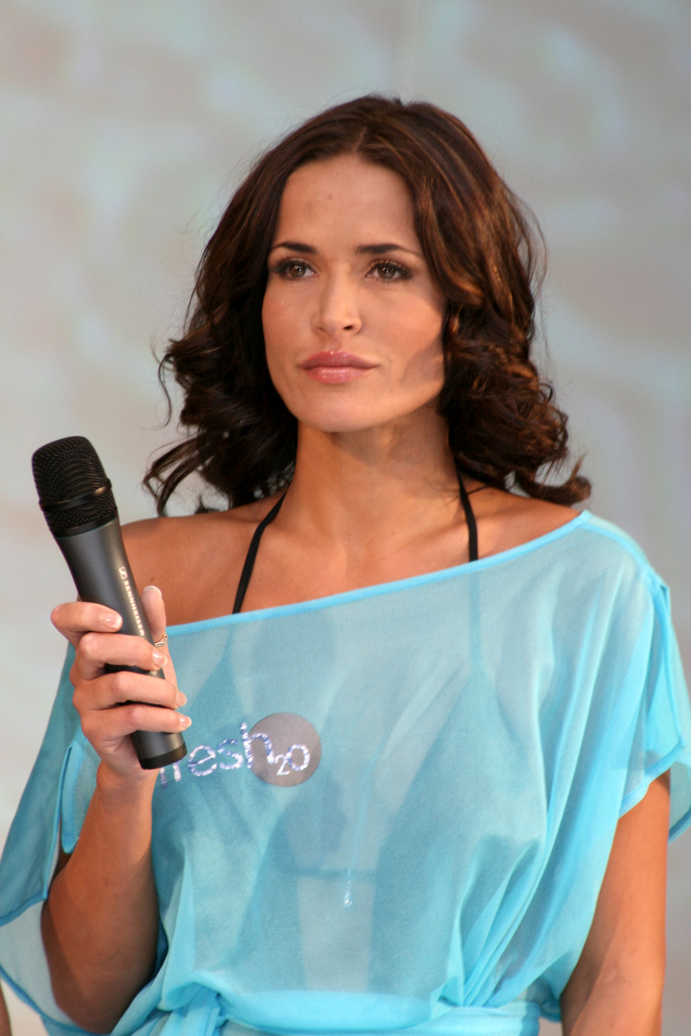 Celebrity Sophie Anderton in event Intimate Body and Beach, London Olympia 30/07/07